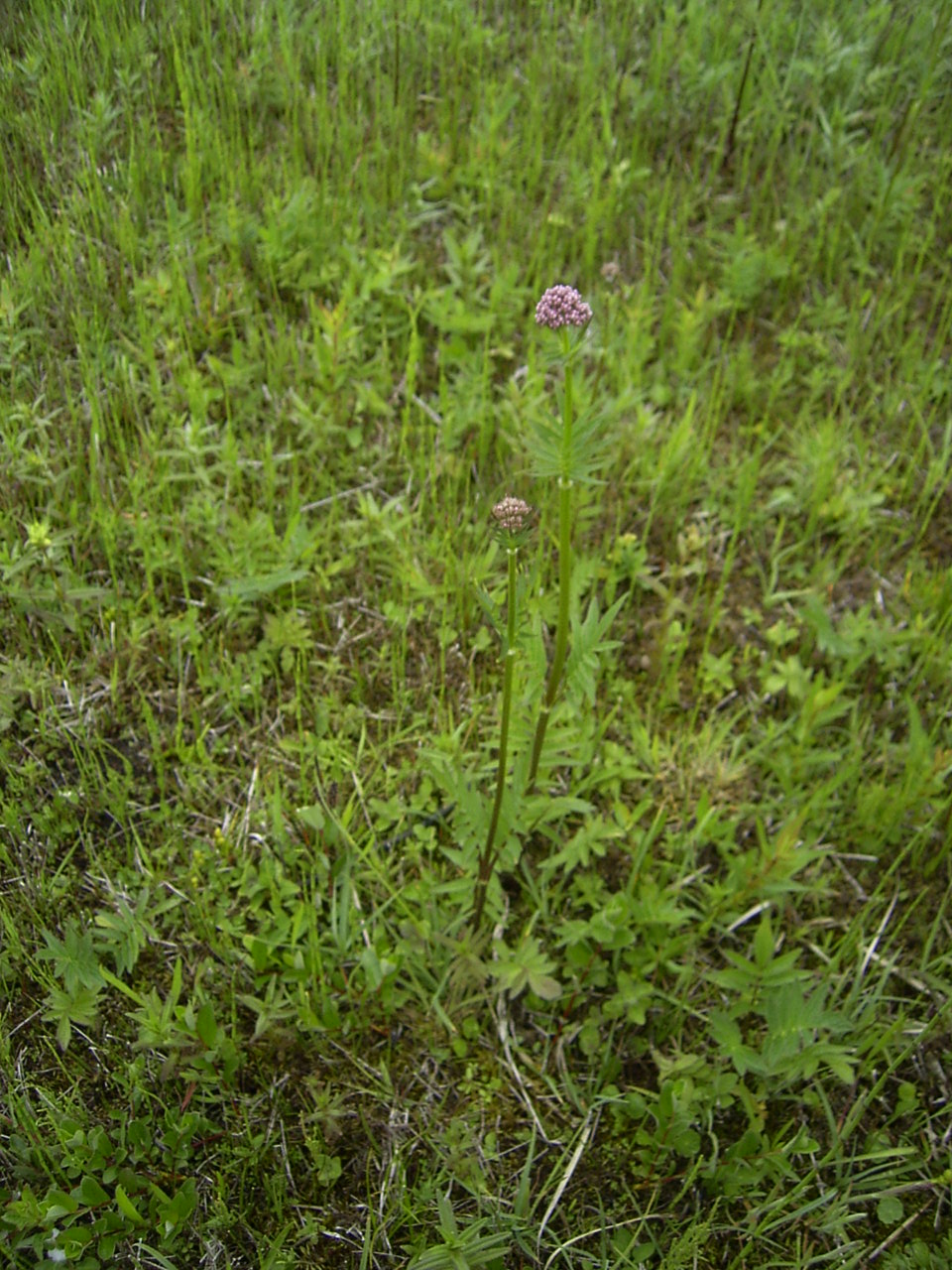 This photo shows Valeriana dioica